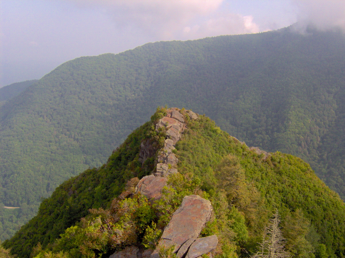 The lower peak of Chimney Tops, in the Great Smoky Mountains. The elevation of both peaks is appx. 4,800 feet/1,463 meters. Mount Le Conte dominates the background. Newfound Gap Road (US-441) is in the lower left-hand corner.